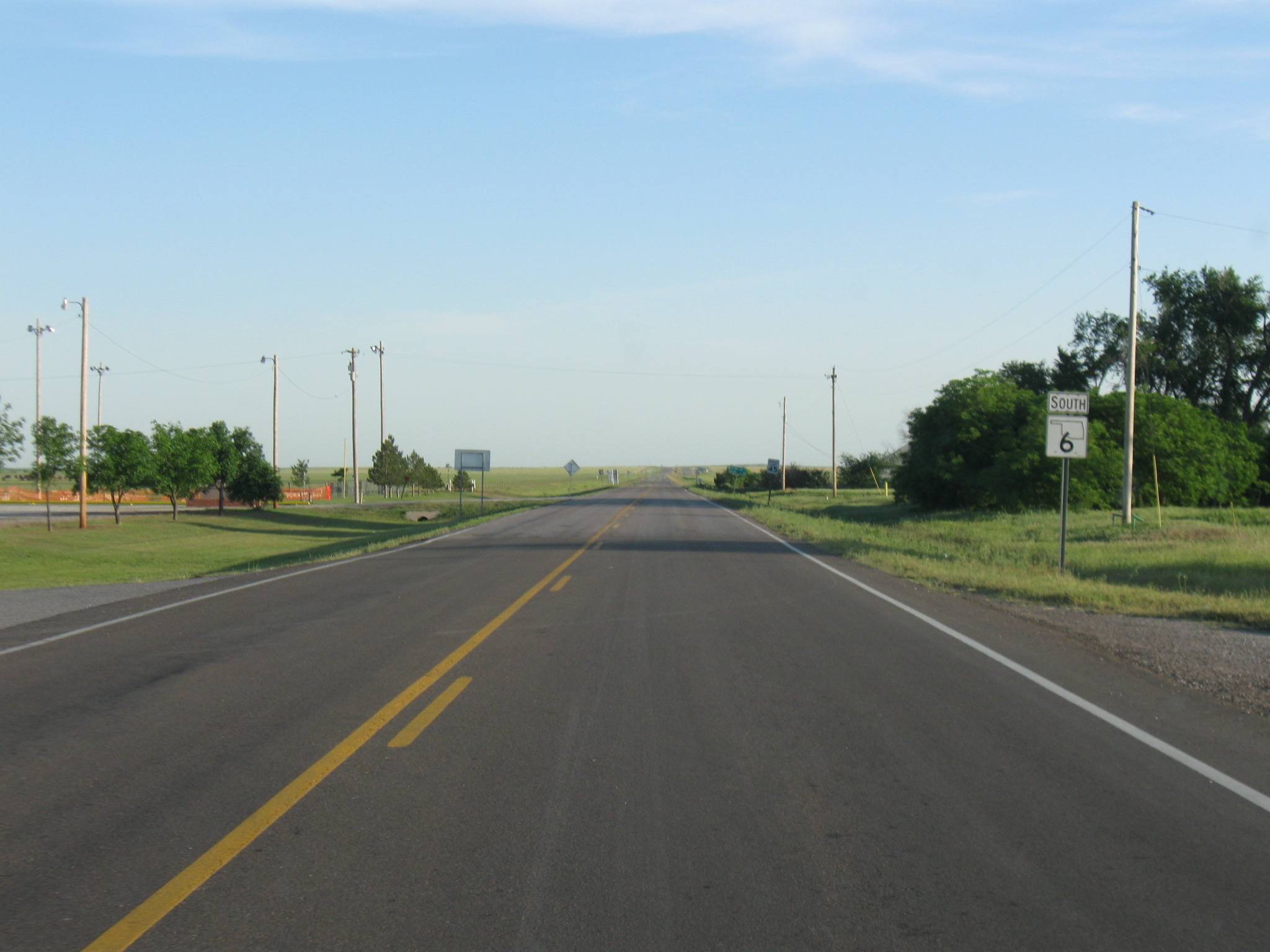 SH-6 southbound just south of the SH-9 junction south of Granite, Oklahoma.